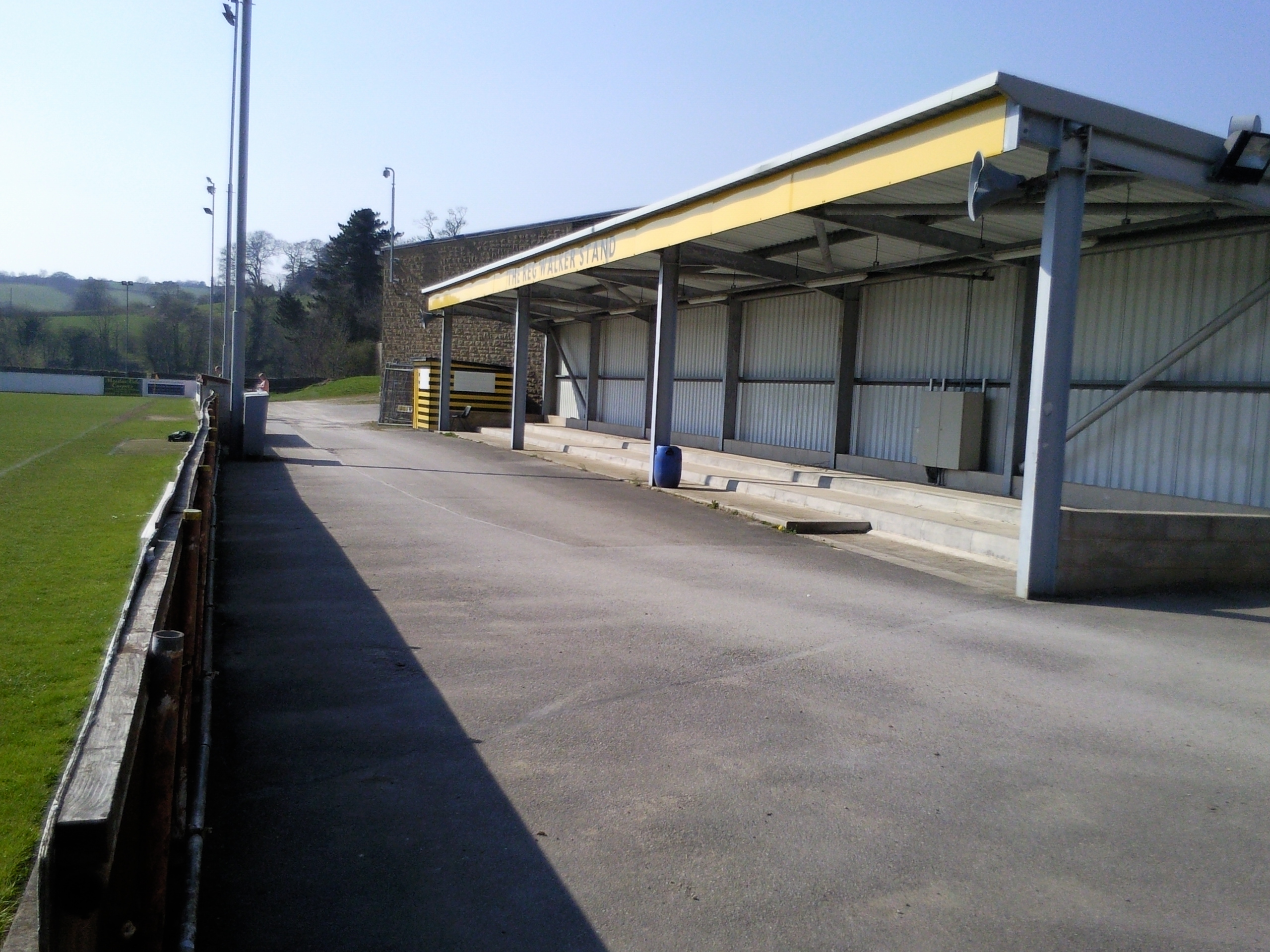 Home stadium of Belper Town F.C.. Photo all my own work, taken on 17 April 2010.